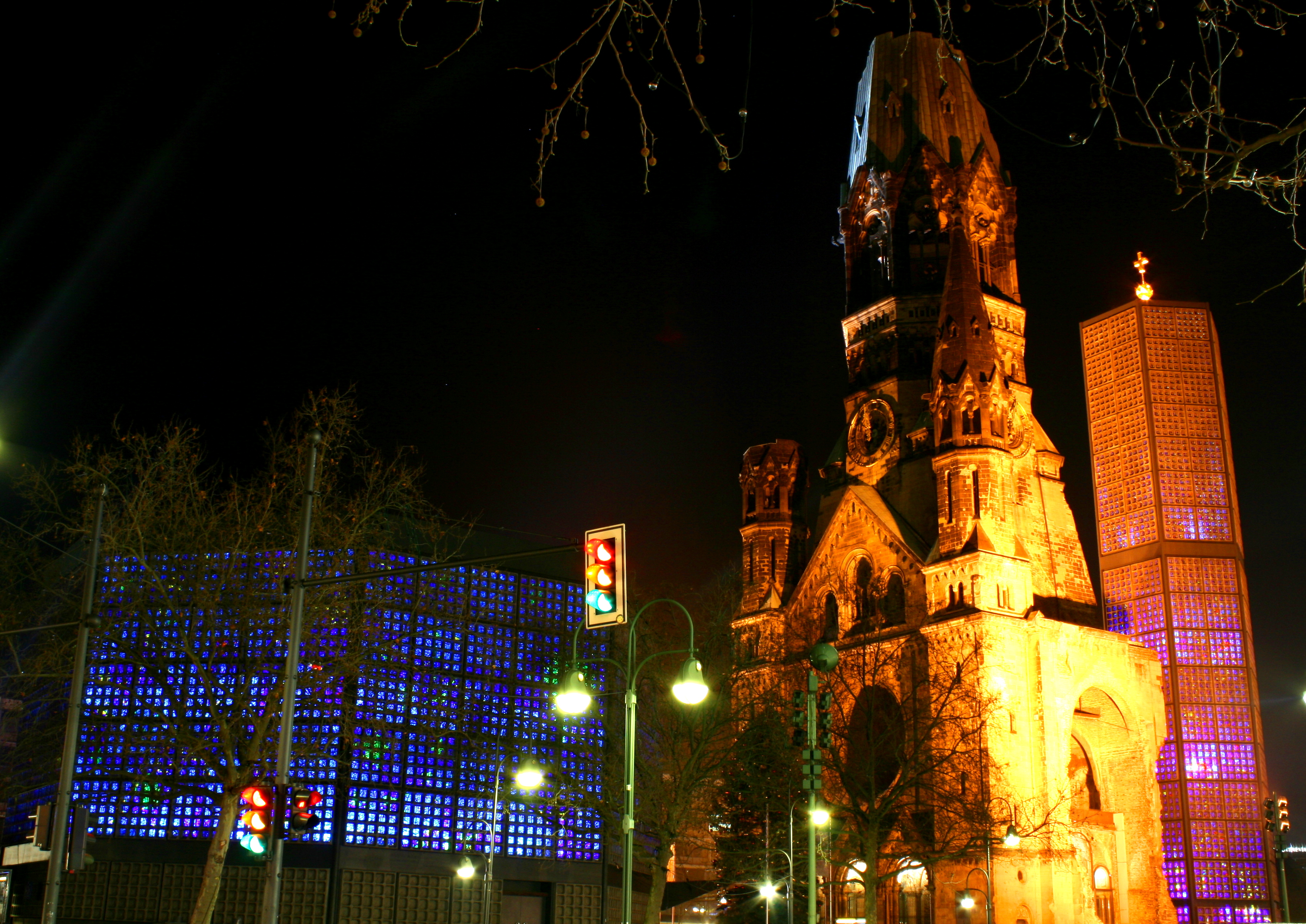 Kaiser-Wilhelm-Gedächtniskirche in Berlin at night.